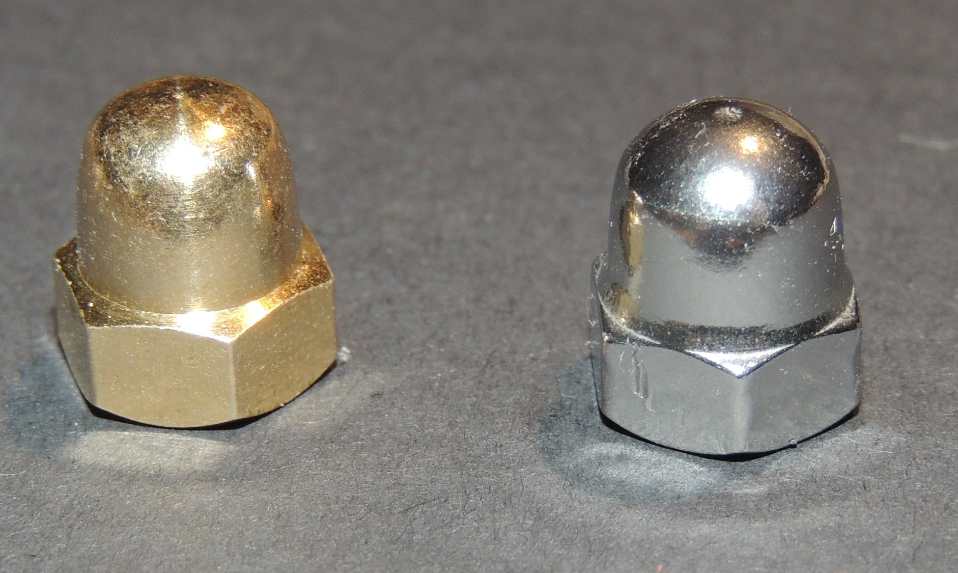 M6 Acorn Nuts, Wrench size 10 mm